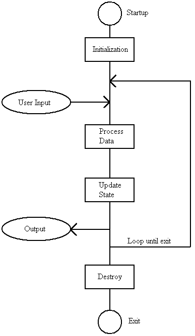 Simplified game loop